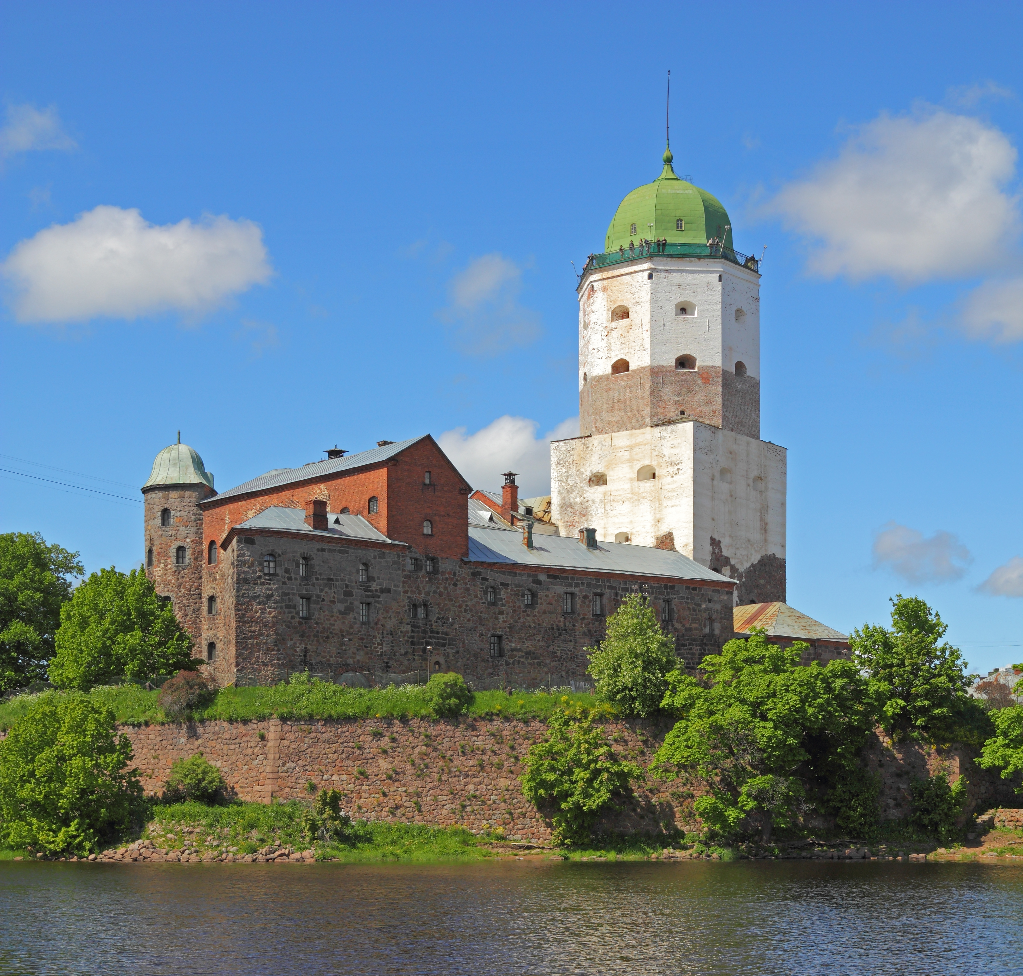 Vyborg (Viipuri), Leningrad Oblast, Russia. Views of the Vyborg Castle.